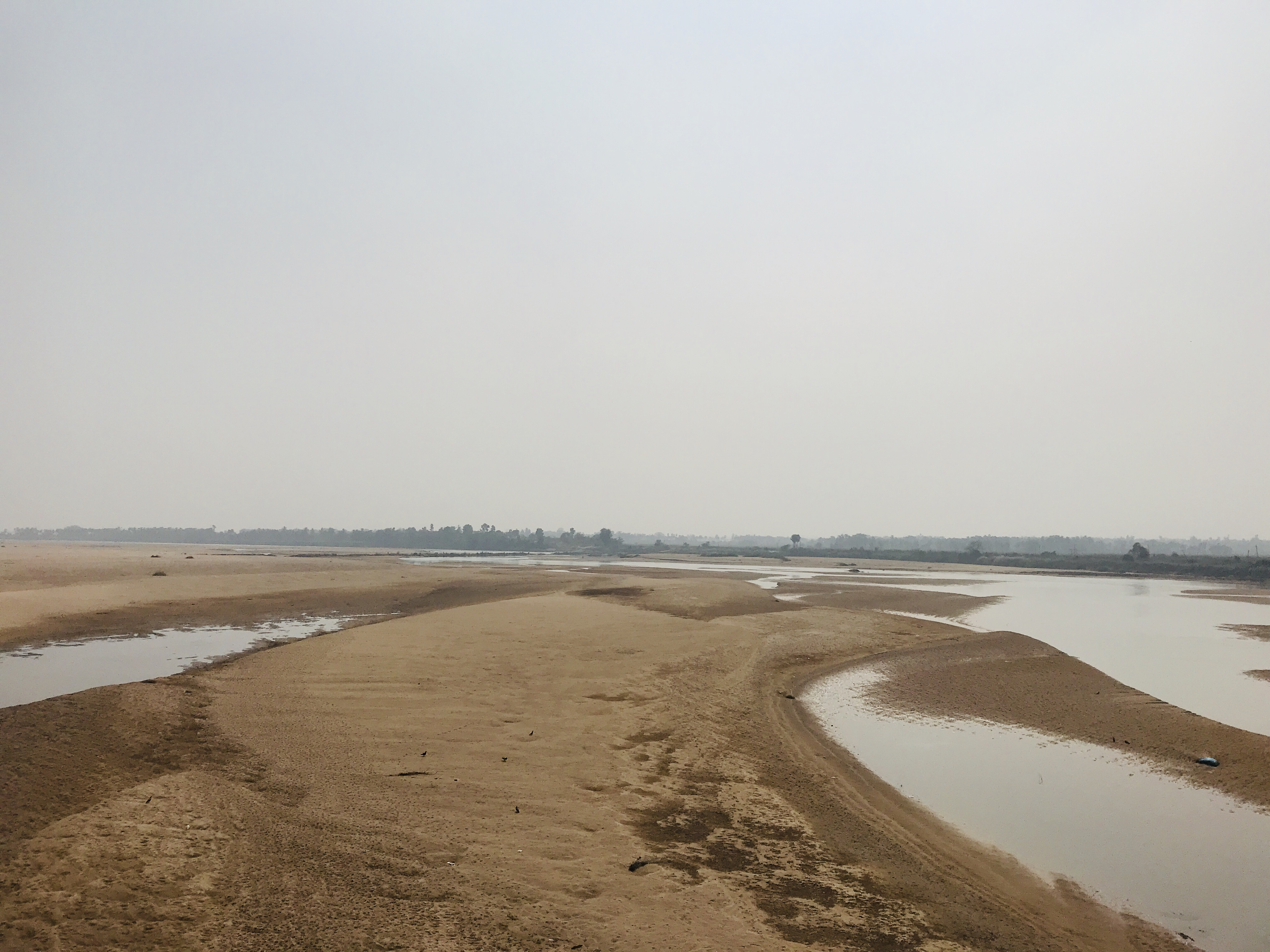 Vamsadhara river from railway bridge